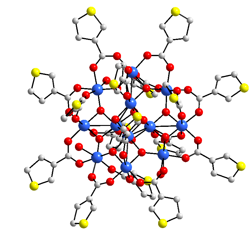 Structure of the single molecular magnet [Mn12O12(O2CC4H3S)16(H2O)4]